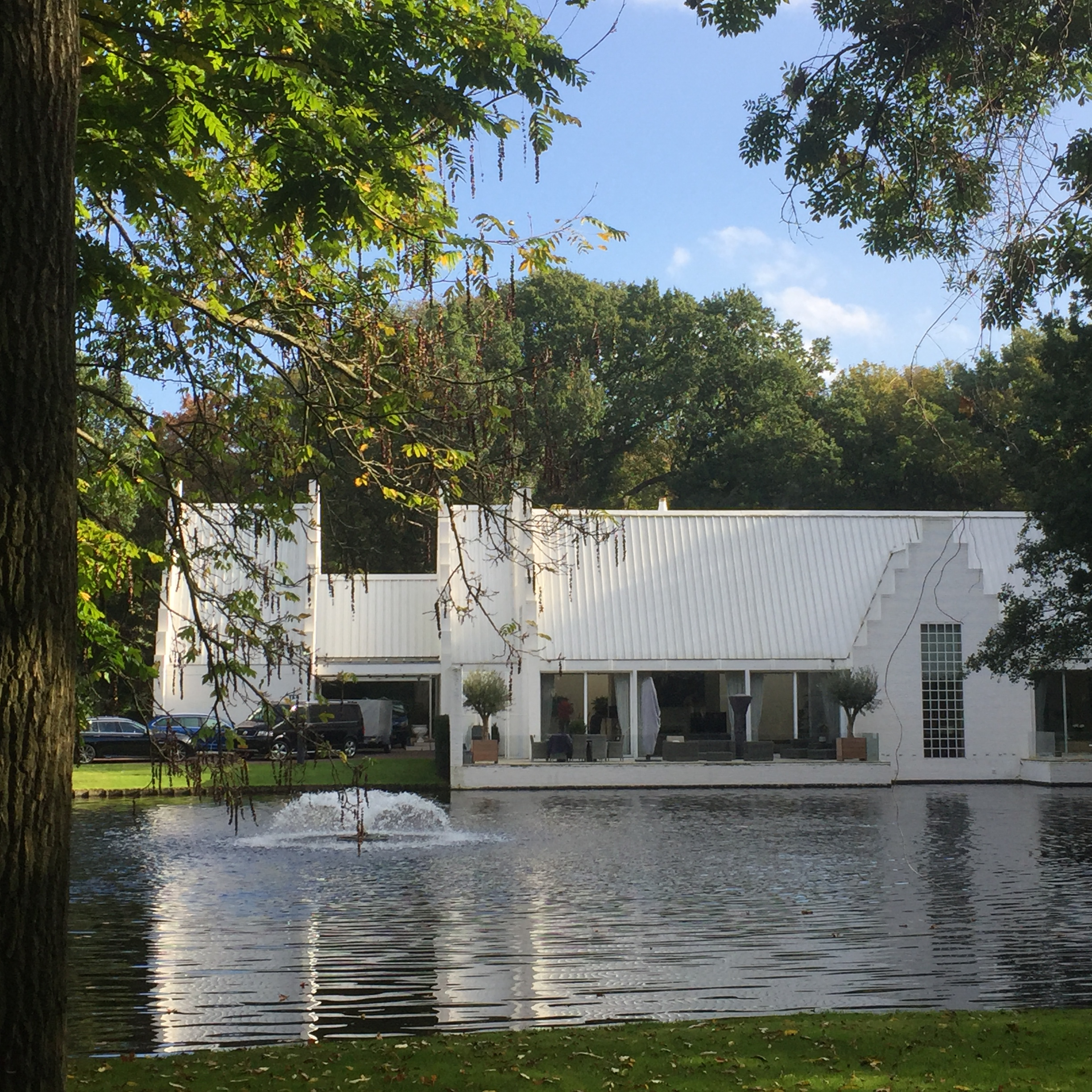 Villa in Voorschoten (the Netherlands). Address: Beethovenlaan 100, Voorschoten. Architect Hugh Newell Jacobson